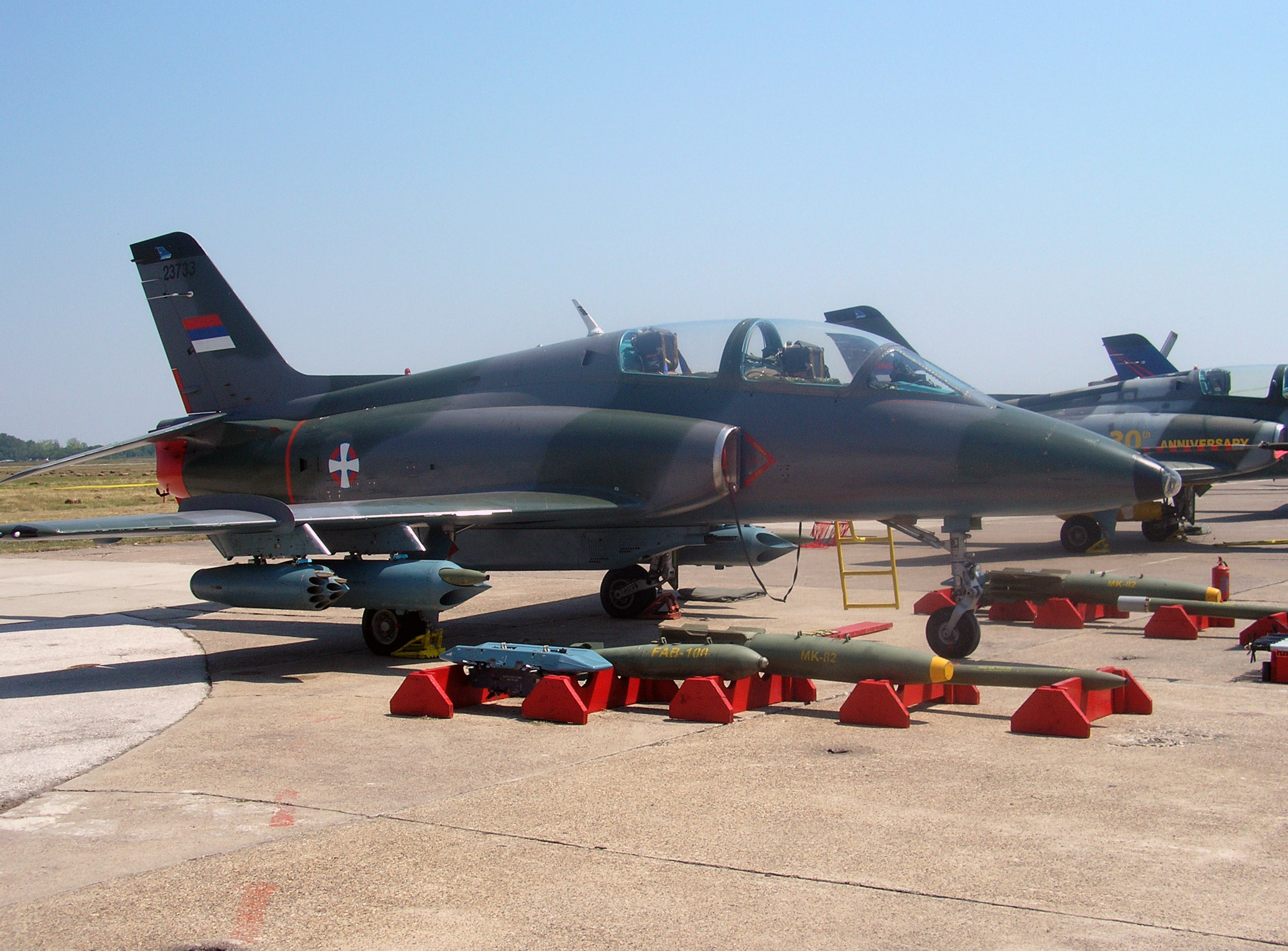 G-4 Super Galeb trainer/light attack jet aircraft No.23733 of 252. Mixed-Aviation Squadron, 204th Air Base of Serbian Air Force, at Batajnica airbase during the Saint Elijah, the Aviation Day in Serbia.